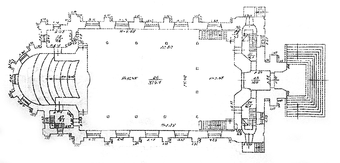 ЛуцькКірхаПлан